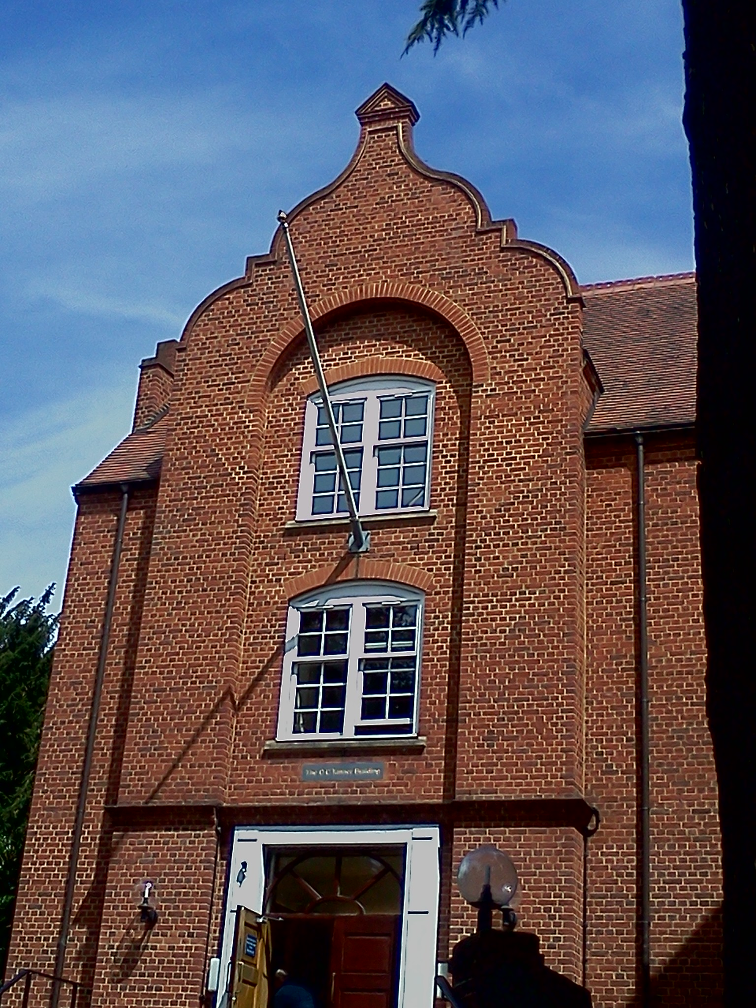 Linacre College Oxford, south west face of the old building.